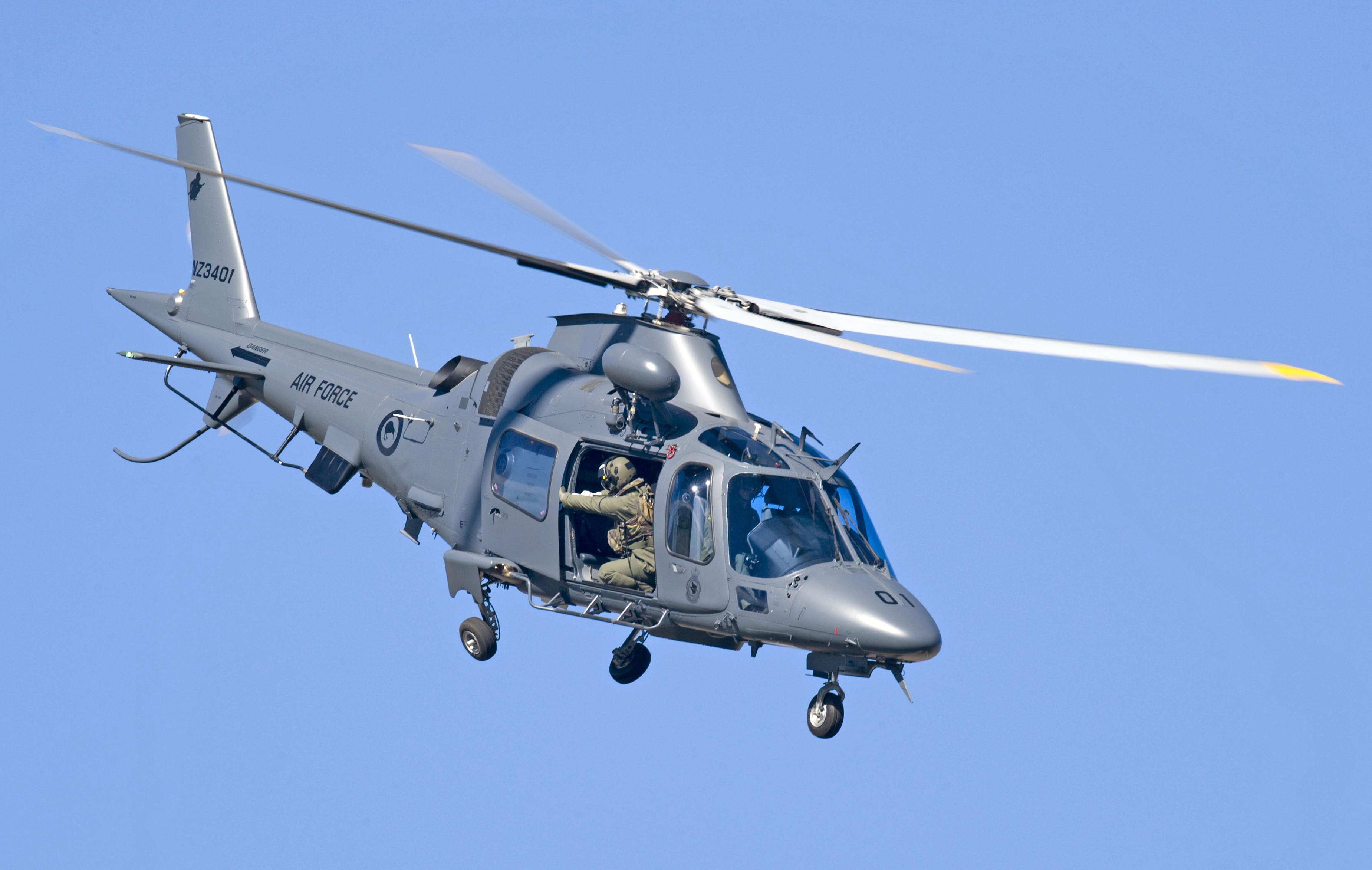 Royal New Zealand Air Force A109 LUH helicopter NZ3401 during a display routine at the 2012 Warbirds over Wanaka Airshow